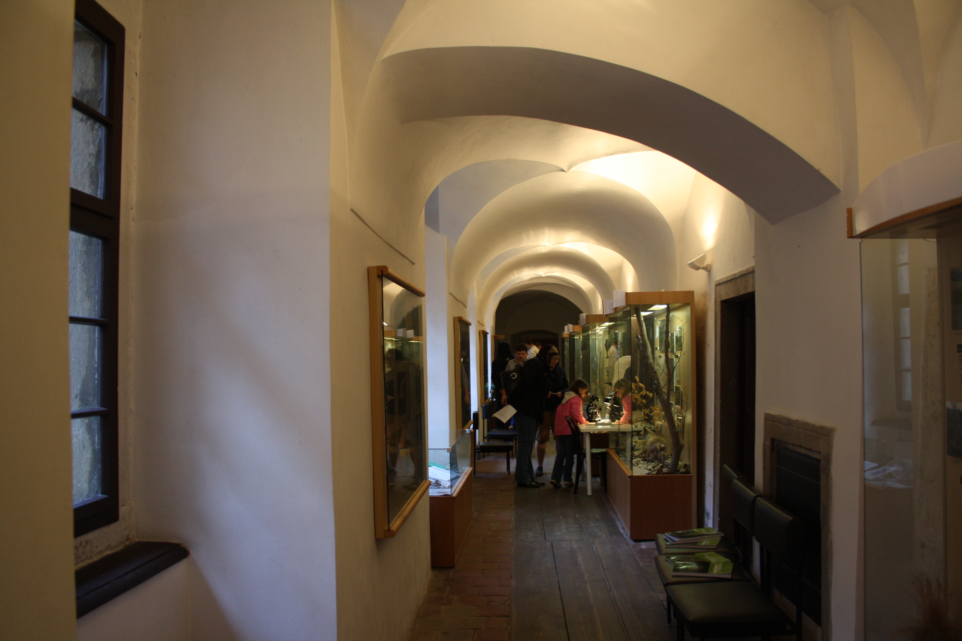 Exposition of Třebíc County nature in Třebíč Castle - Muzeum Vysočina.